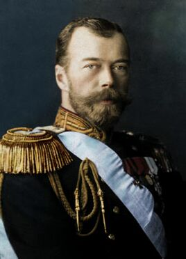 Nicholas II